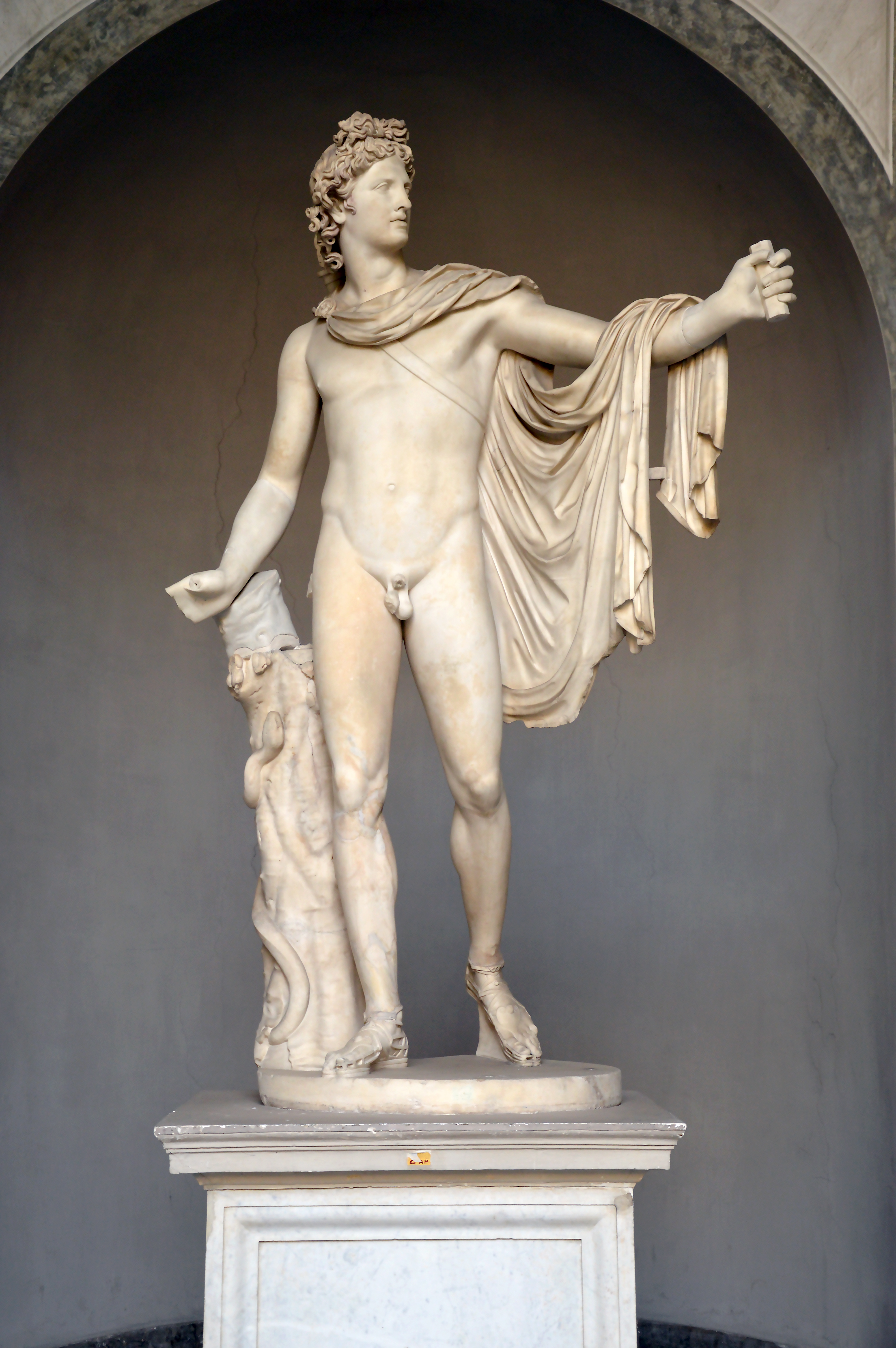 Apollo of the Belvedere